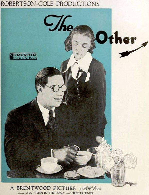 Ad for the American film The Other Half (1919) with Charles Meredith and Florence Vidor, page 1569 of the August 23, 1919 Motion Picture News. This was part of a two page ad that was on two sides of a single page in the publication.